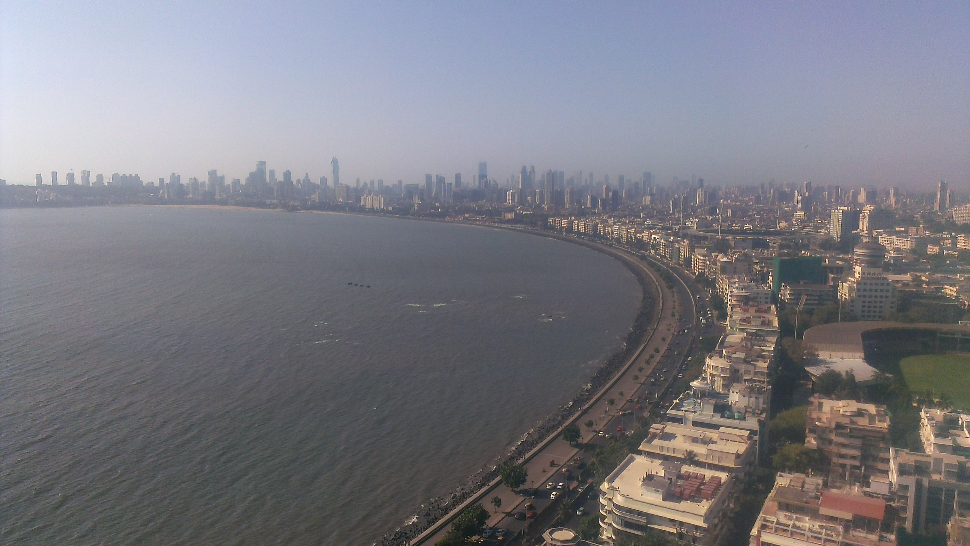 View of Marine Drive, Mumbai from Air India Building